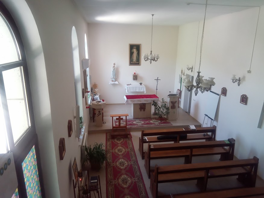 Kościół Kulsary prezbiterium